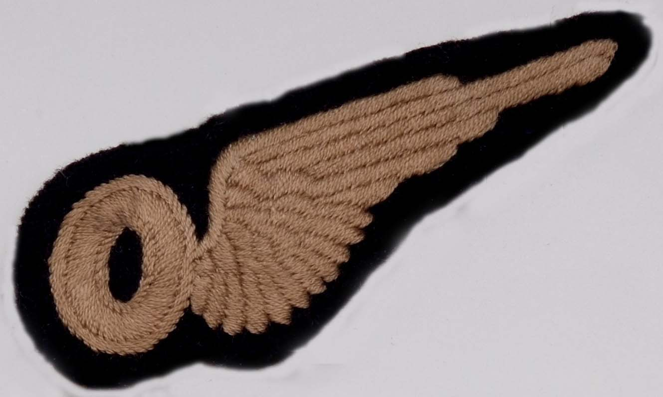 Obs wing